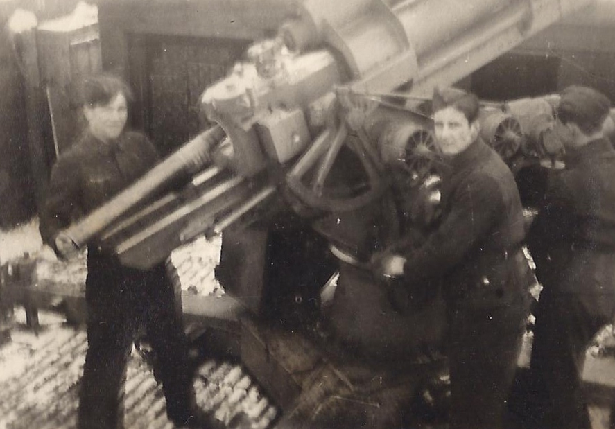 8,8cm-antiaircraft battery in Berlin-Karow, Flakhelfer (born 1927) as a gunner and loader on the gun "Emil" (January 1944)